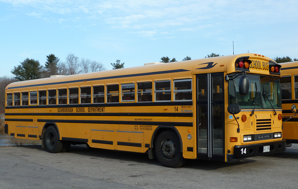 A Blue Bird All American FE school bus belonging to the Scarborough School Department of Scarborough, Maine. Photographed in Portland, Maine.